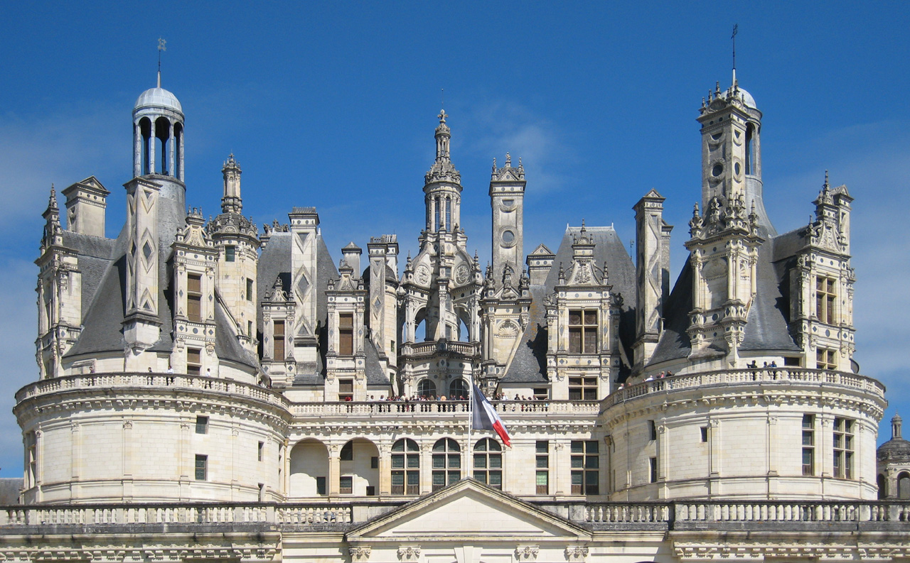 Roof of the Château de Chambord with its numerous towers